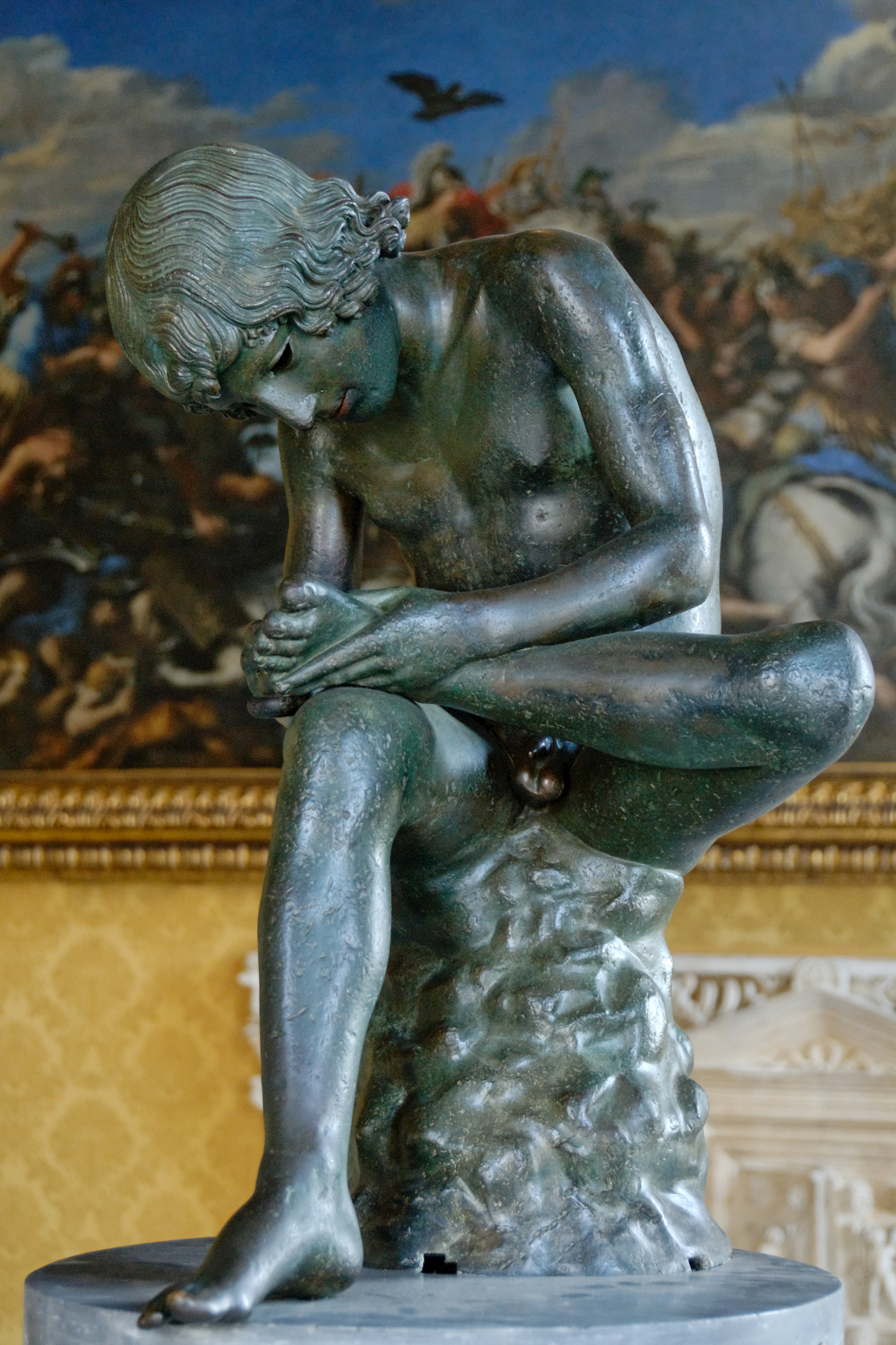 The Spinario or Thorn-Puller. Greek artwork of the Late Helelnistic era after classical and hellenistic models.